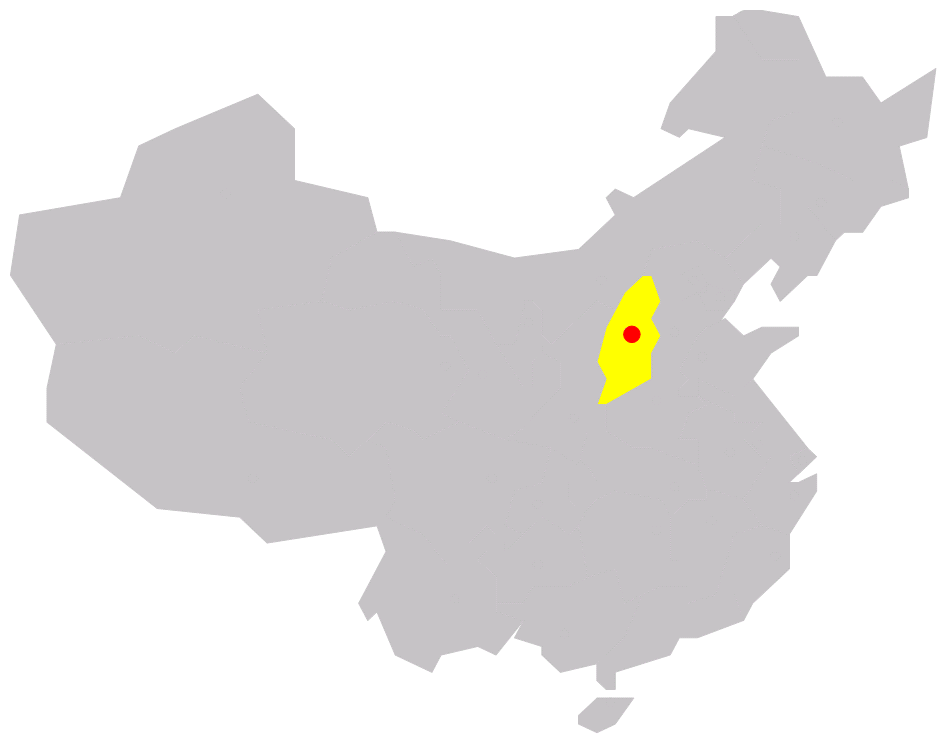 Description: position of Taiyuan in China Source: own work Date: December 2005 Author: --Immanuel Giel 13:36, 16 December 2005 (UTC) Other versions: none